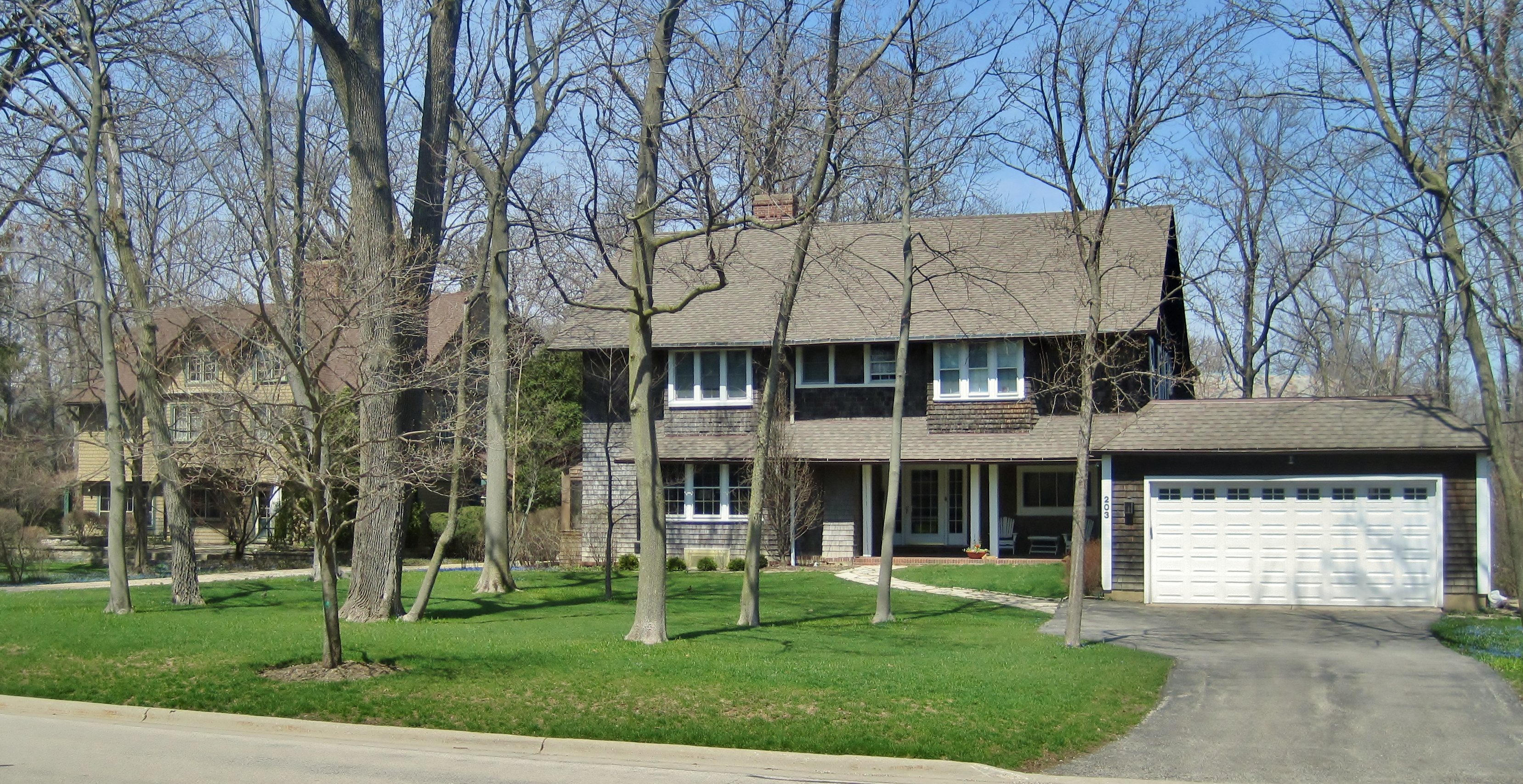 Two houses in the Hazel Avenue Prospect Avenue Historic District (203 and 215 Prospect Avenue)